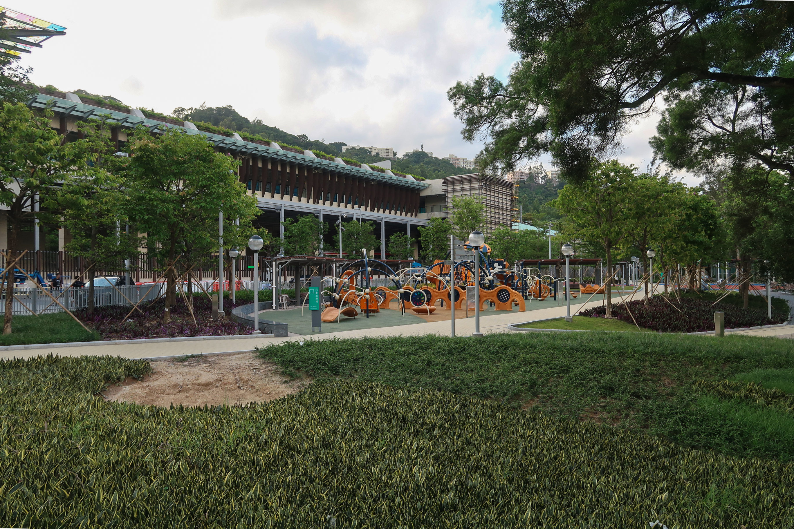 Hin Tin Playground New Children Playground